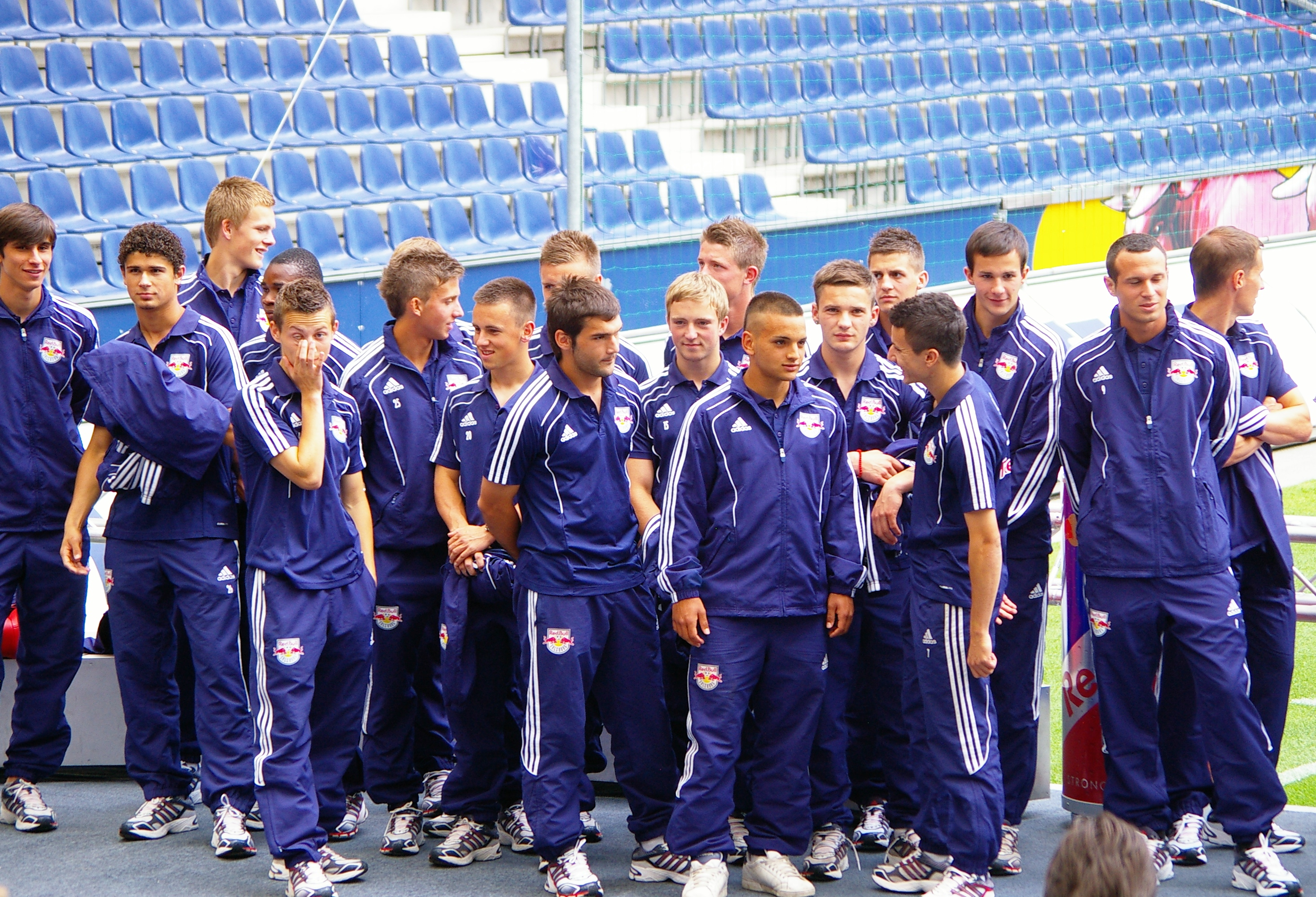 Second squad of FC Red Bull Salzburg